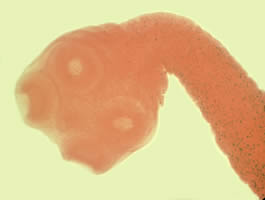 Taenia saginata - scolex (the attachment organ (mouth))